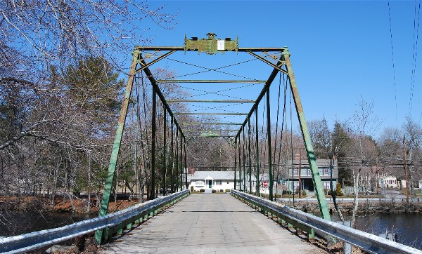 Arkwright Bridge over North Branch Pawtuxet River, Arkwright Village, Rhode Island